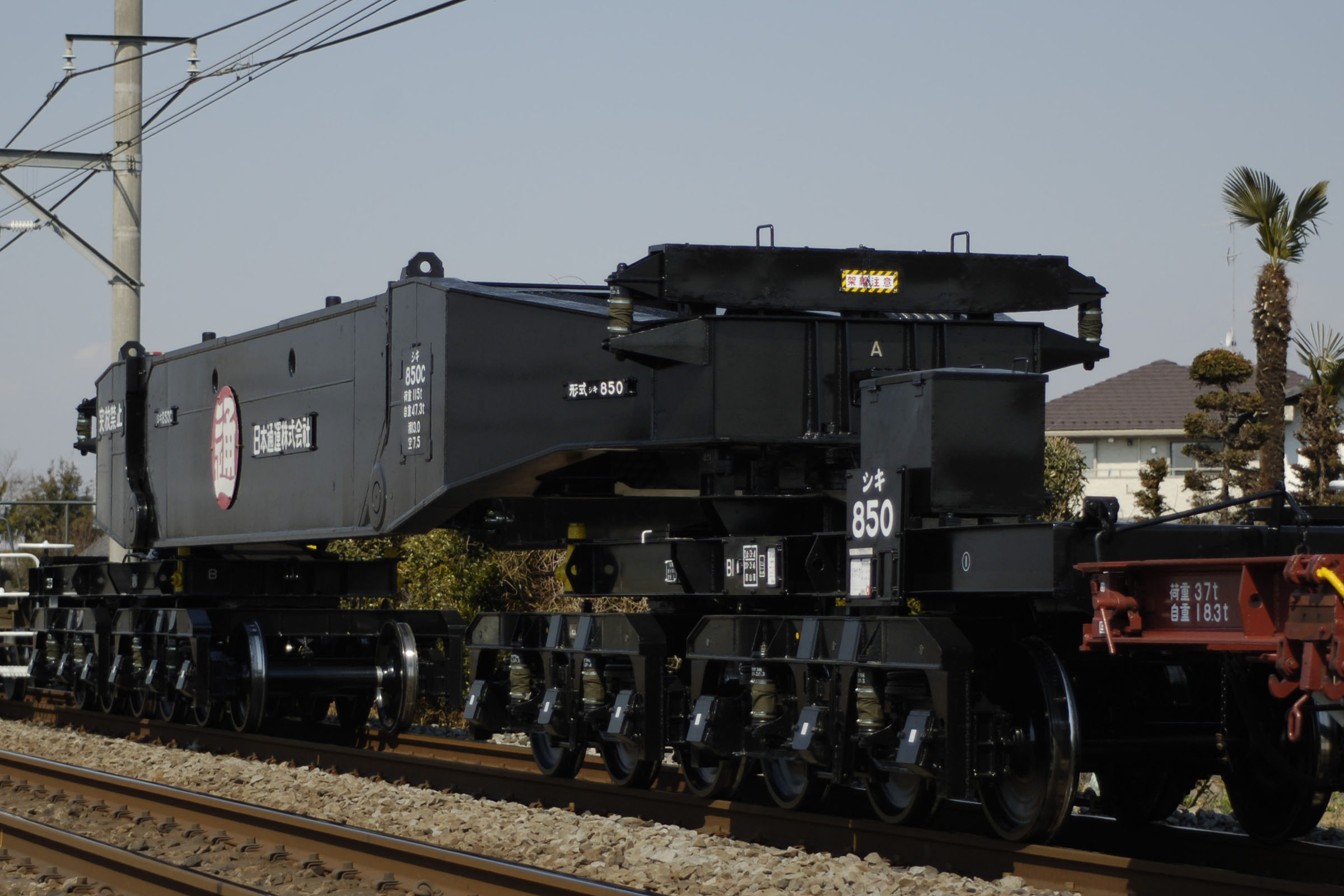 Type "Shiki 850" Heavy capacity flatcar.